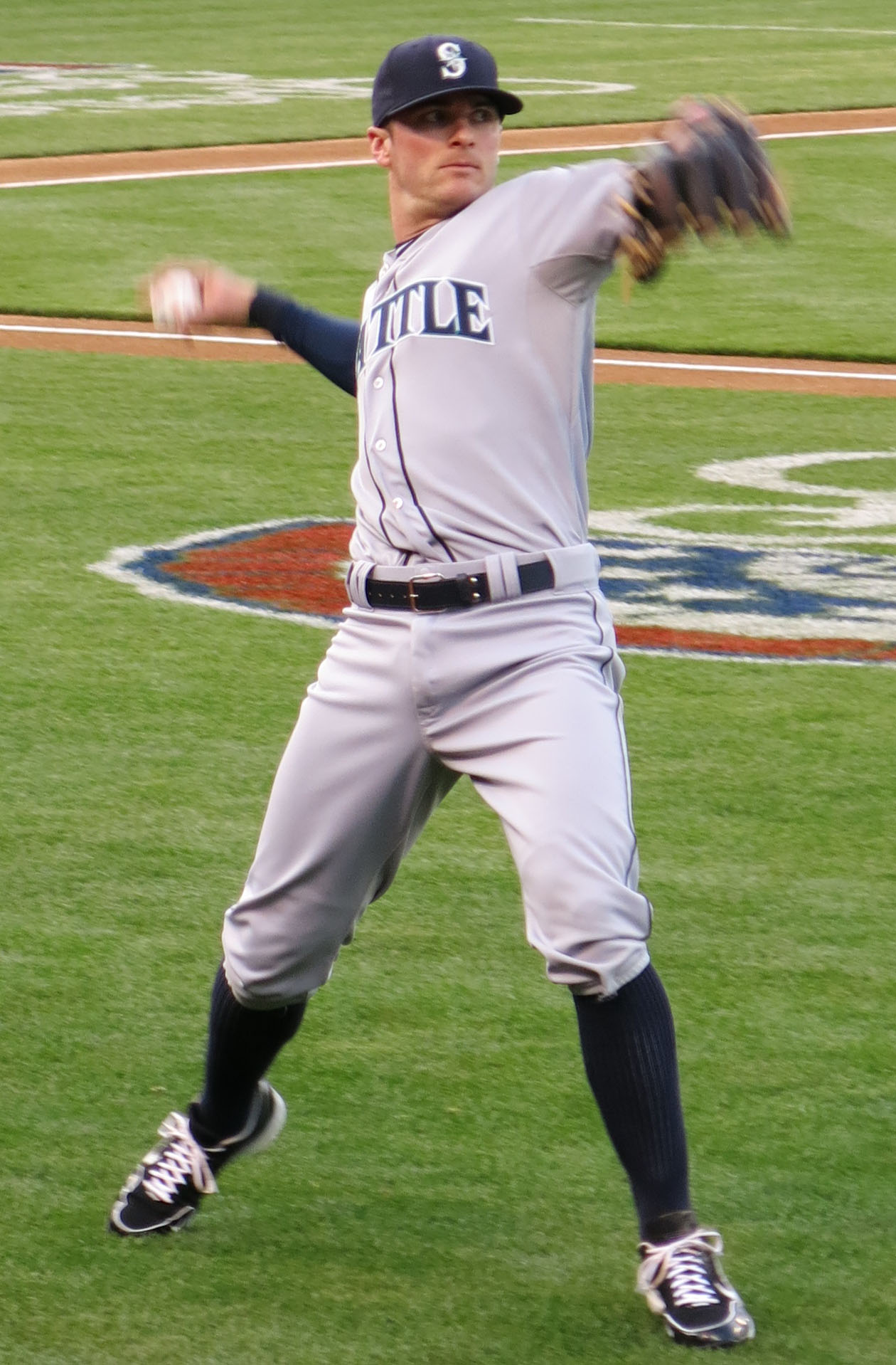 Seattle Mariners shortstop Brendan Ryan warms up before a game against the Oakland Althetics in Oakland.